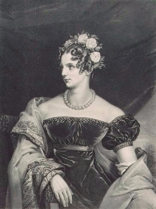 Портрет императрицы Александры Федоровны, 1820. Гравер Погонкин В.И. 1793-после 1847.